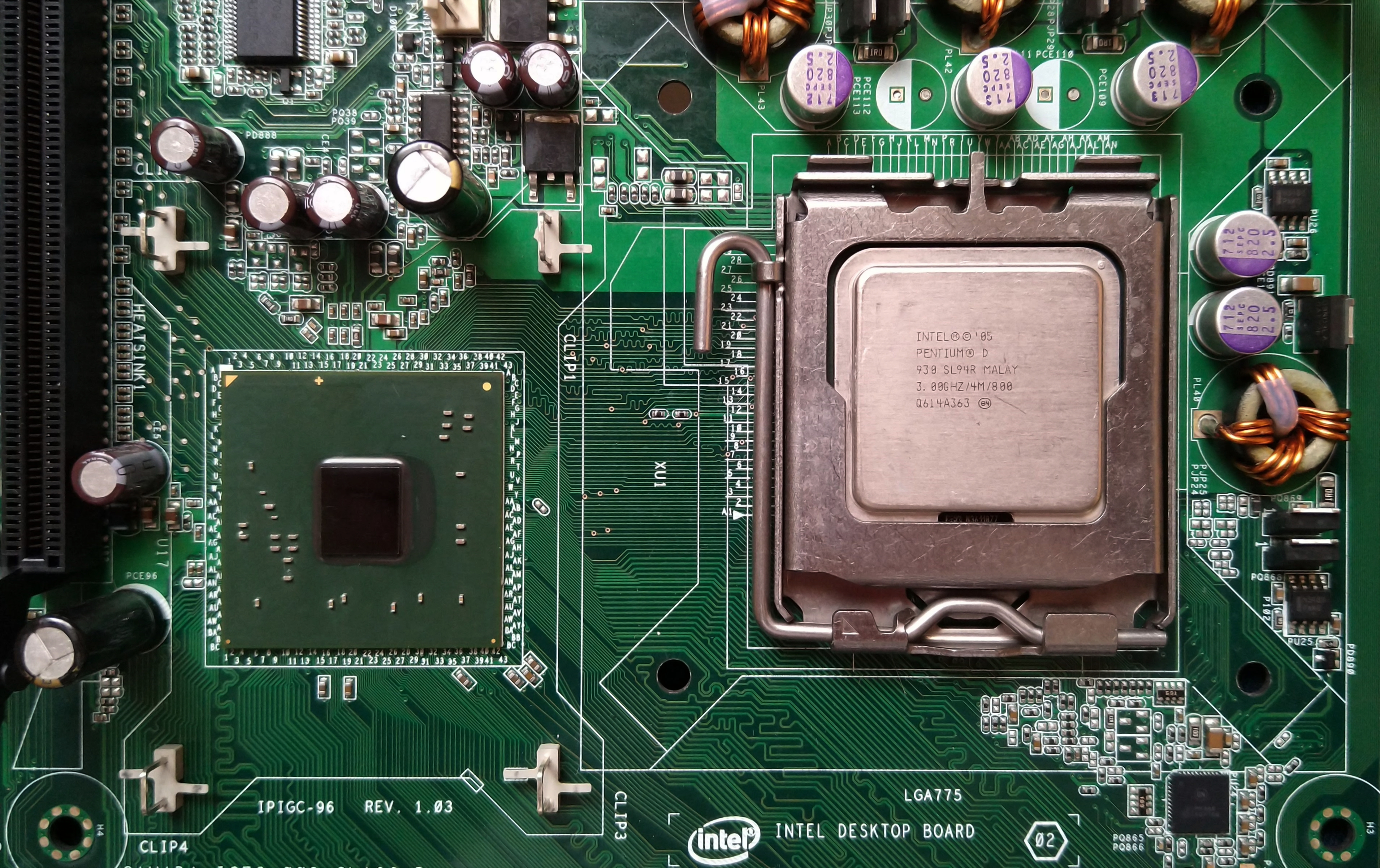 Intel i945GC Chipset with Pentium D 930 3.00 GHz microprocessor